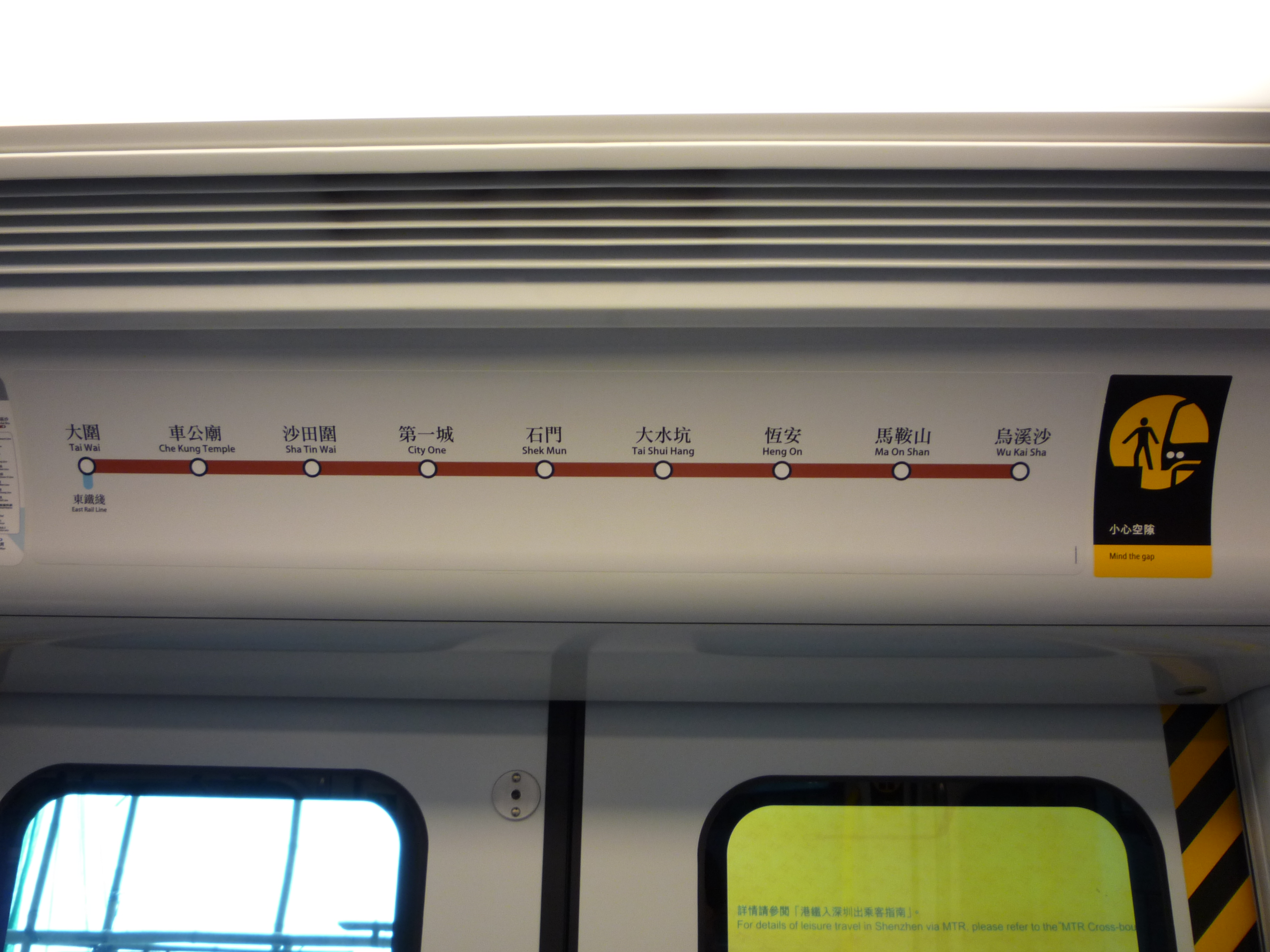 A routemap of MTR Ma On Shan Line in the Train SP1950